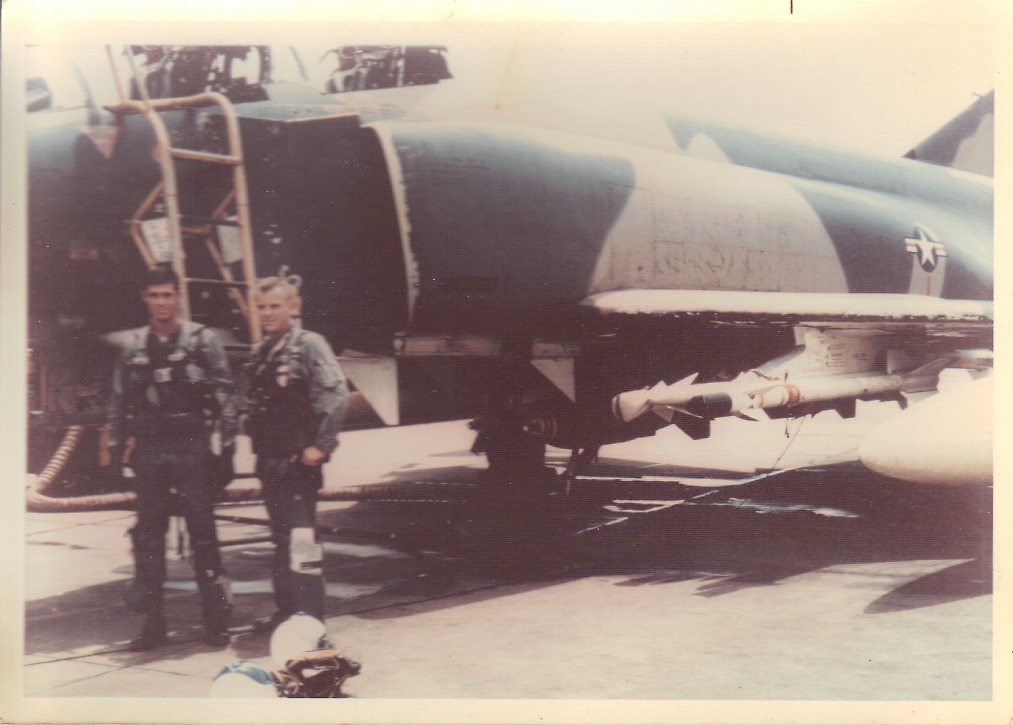 U.S. Air Force 1st Lieutenant Hubert Buhanan (left) and Major John L. Robertson (right) of the 555th Tactical Fighter Squadron, 8th Tactical Fighter Wing, with their McDonnell F-4C-20-MC Phantom II, s/n 63-7643, at Ubon Royal Thai Air Force Base, Thailand, on 15 September 1966. This aircraft was shot down by MiG-17 gunfire near Dap Cau, North Vietnam on 16 September 1966. The pilot, Major Robertson was killed,1st Lt. Buhanan became a prisoner of war.